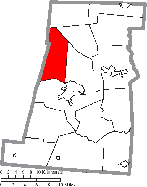 Map of the municipal and township boundaries of Madison County, Ohio, United States, as of the 2000 census, with the location of Somerford Township highlighted. Township borders are shown only in unincorporated areas in order to differentiate incorporated and unincorporated areas more clearly.